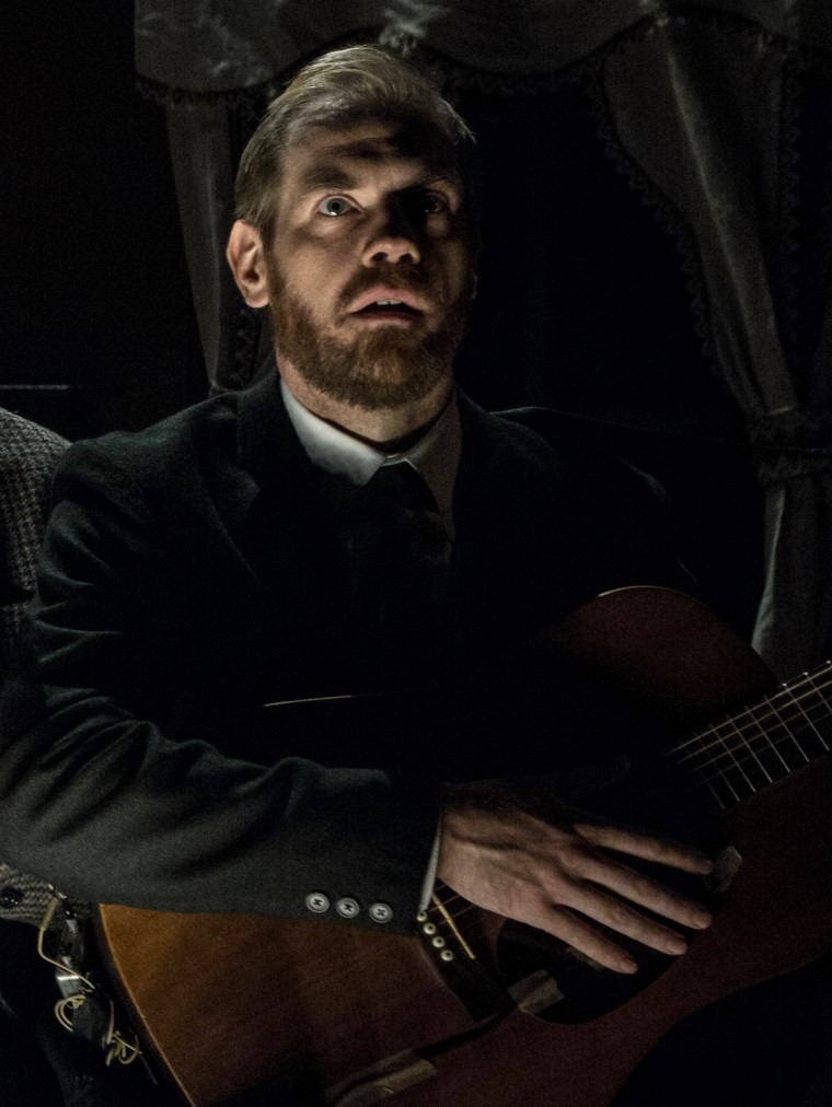 Morten Hemmingsen in the Copenhagen theater Folketeatret's production of the play "Lille mand hvad nu?" (Kleiner Mann – was nun?) bases on the novel by Hans Fallada.